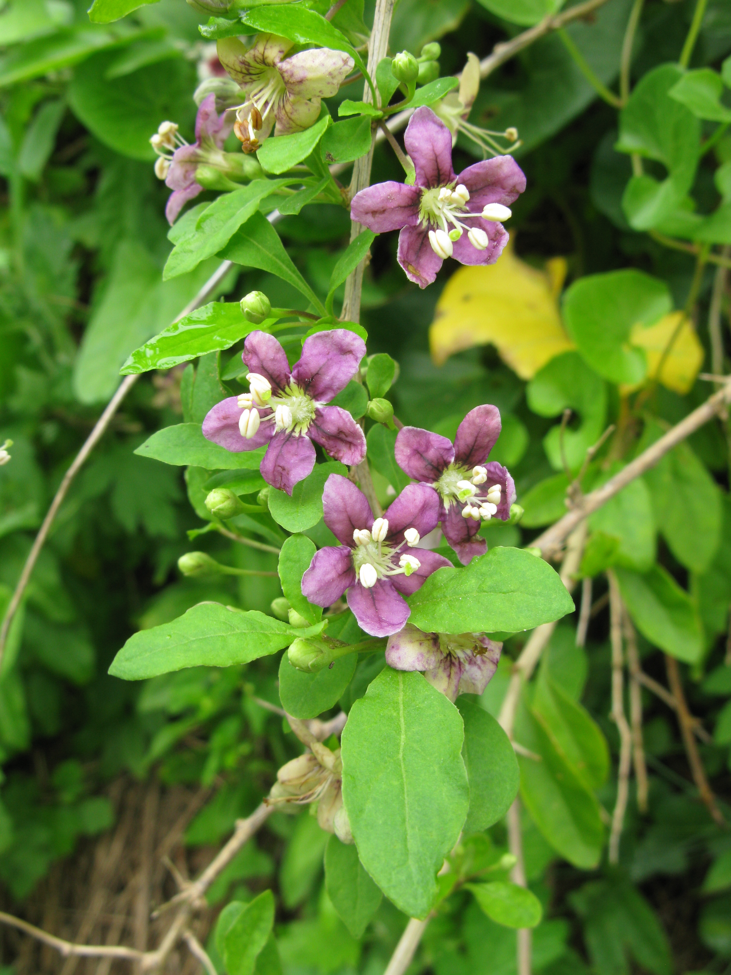 Lycium chinense, Shōnai area, Yamagata pref., Japan